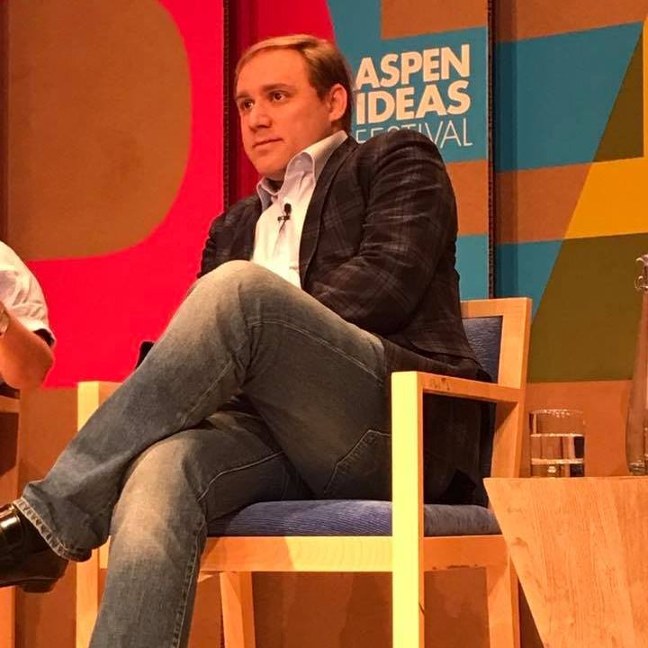 Dmitri Alperovitch at Aspen Ideas